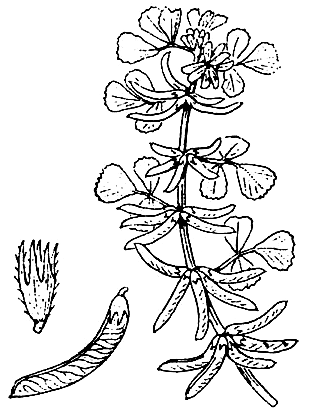 Medicago monspeliaca (L.) Trautv., listed on page 330 of volume 1 as Trigonella monspeliaca (L)